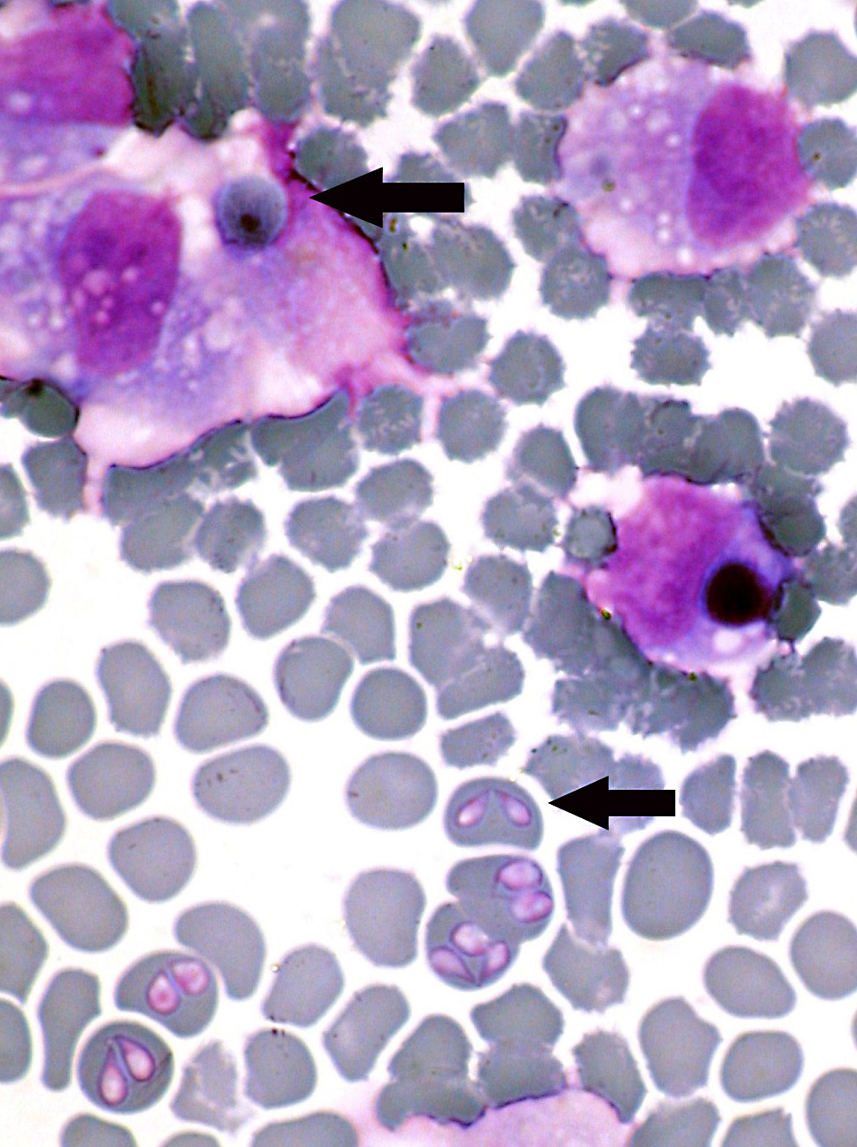 A blood film stained with Giemsa from a dog in South Africa, showing double infection with Ehrlichia (top arrow) in white blood cells and Babesia (bottom arrow) in red blood cells.